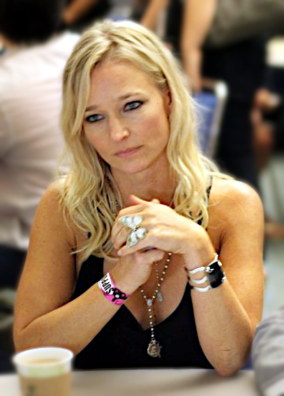 Kari Matchett at Comic-Con 2011.